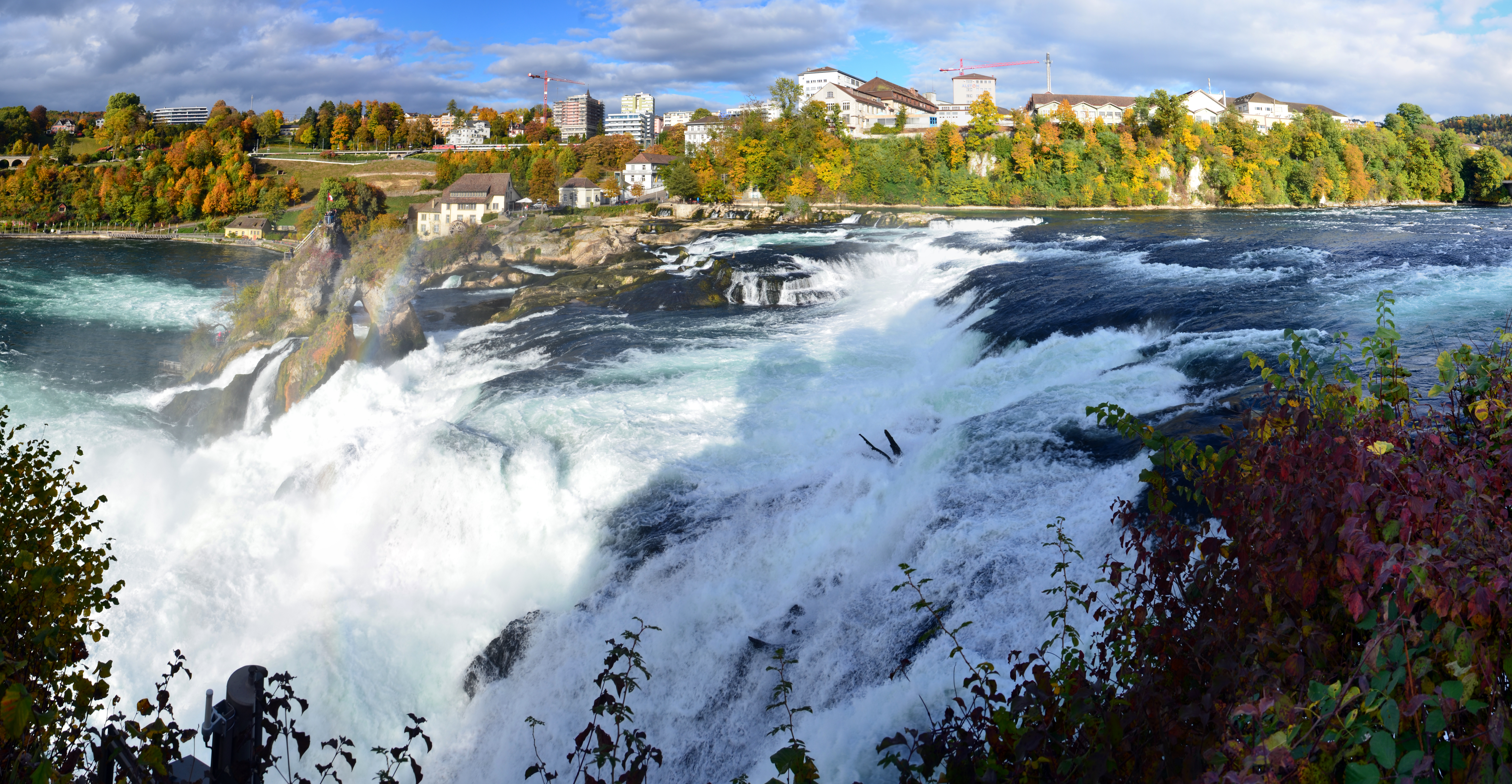 The Rhine Falls, between the villages of Neuhausen am Rheinfall and Laufen-Uhwiesen/Dachsen, in Switzerland.